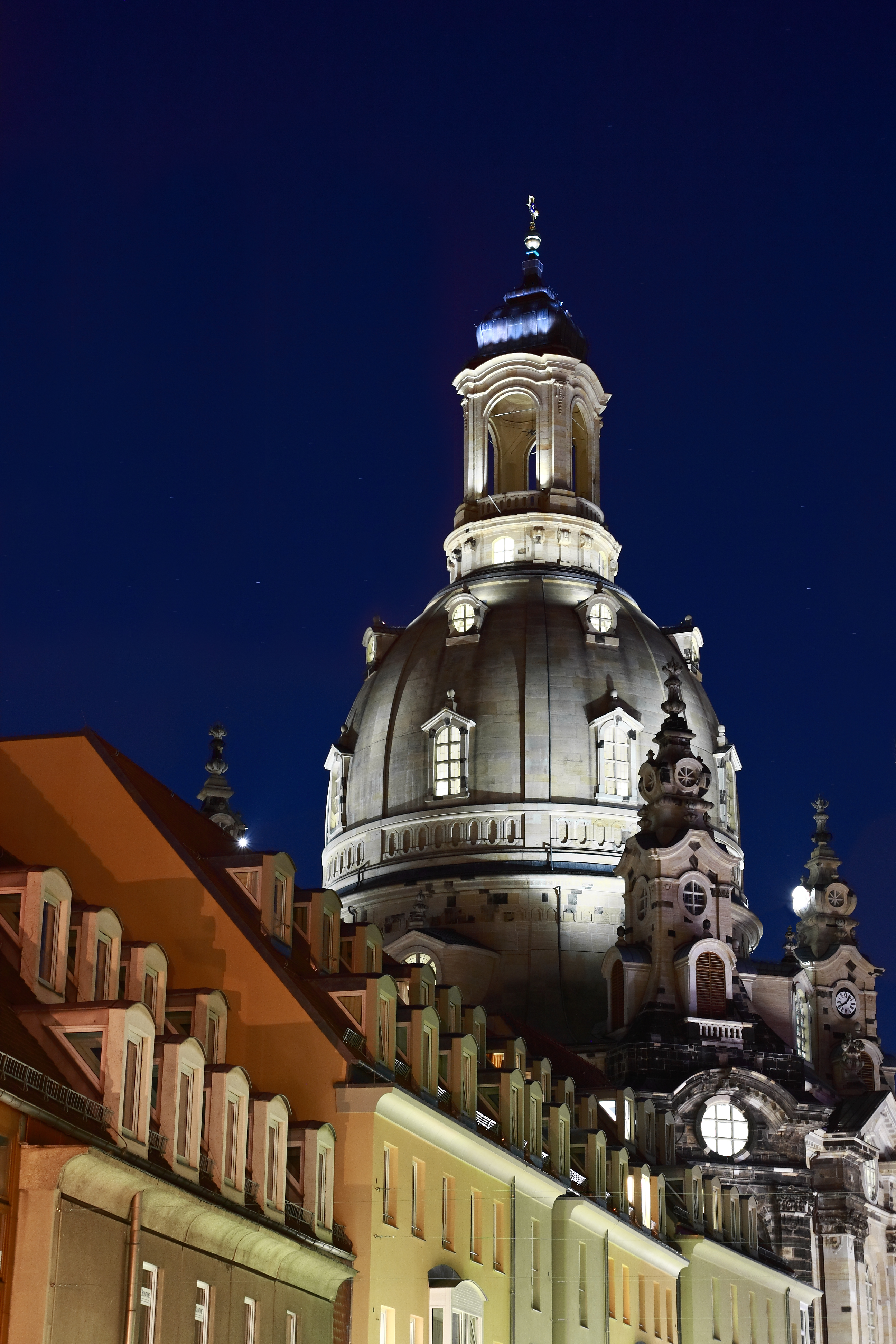 Frauenkirche Dresden